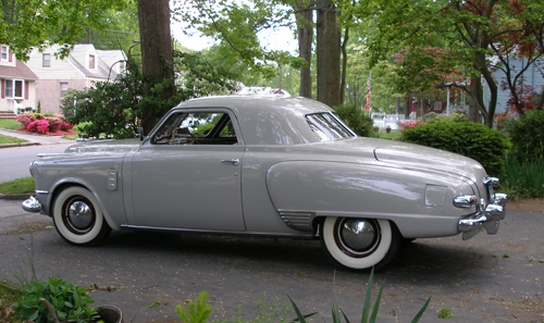 I recropped the image for use on my ad-supported automotive website (Ate Up With Motor). This is the edited version. Original is © 2008 T442163.